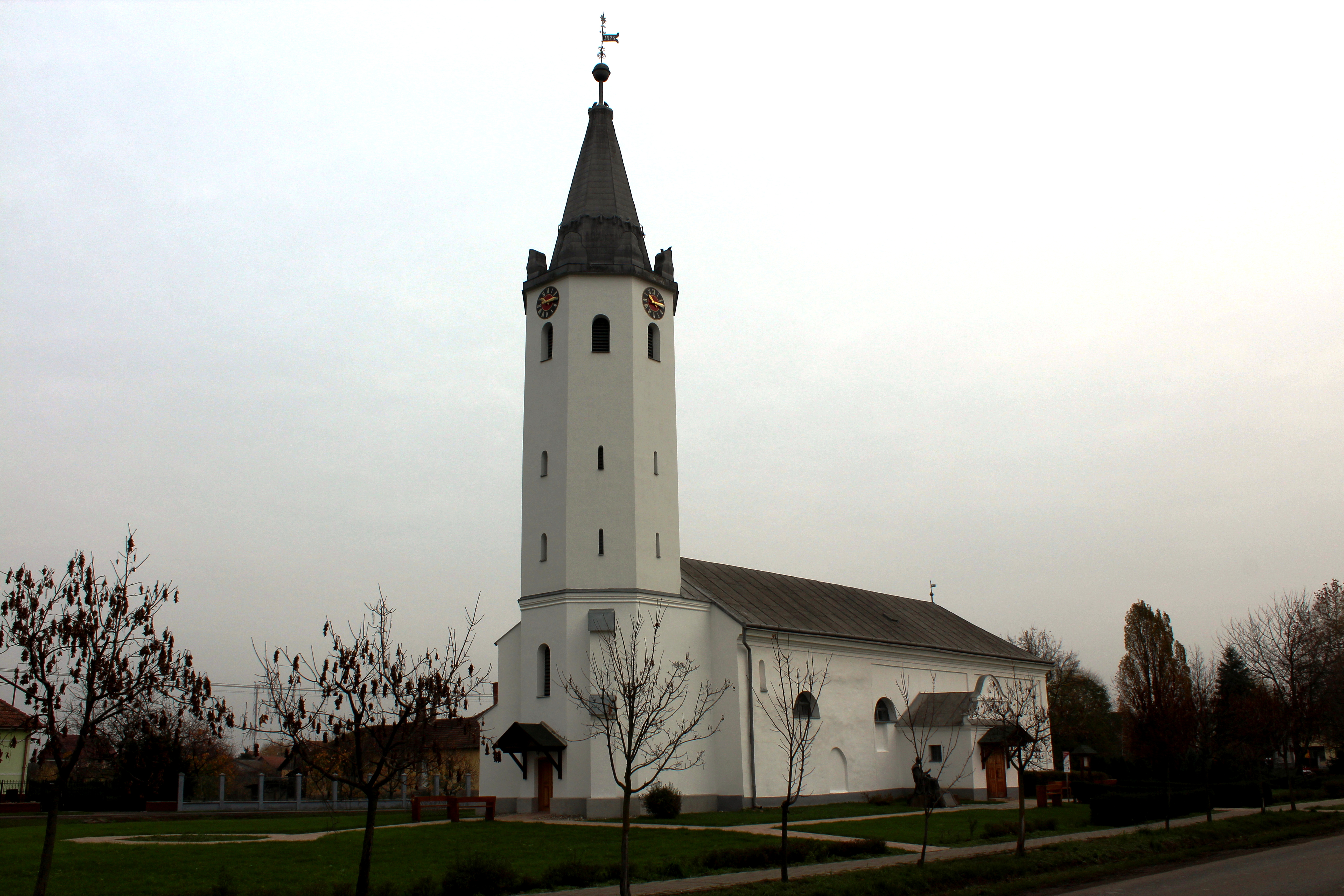 Reformed church in Porcsalma, Hungary This is a photo of a monument in Hungary. Identifier: 8425